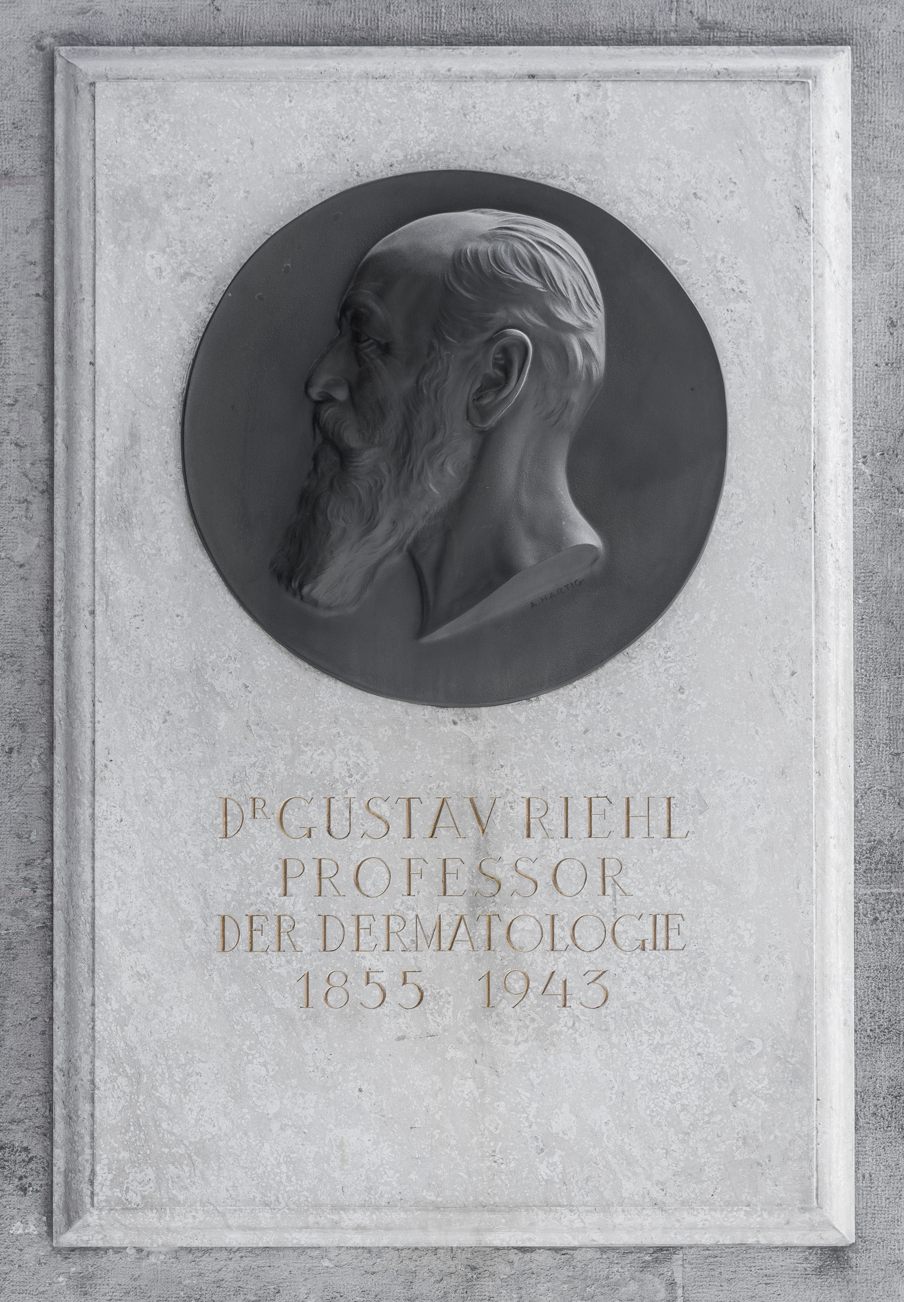 Gustav Riehl (1855-1943), basrelief (bronze) in the Arkadenhof of the University of Vienna, (Maisel# 92). Artist: Arnold Hartig (1878-1972), unveiled 1954 Anton Hanak (1875–1934) DescriptionAustrian sculptorDate of birth/death 22 March 1875 7 January 1934 Location of birth/death Brno ViennaWork location Vienna Authority control : Q32370 VIAF: 72188567 ISNI: 0000 0000 6678 7070 ULAN: 500054670 LCCN: n84188565 Open Library: OL1838797A WorldCat creator QS:P170,Q32370